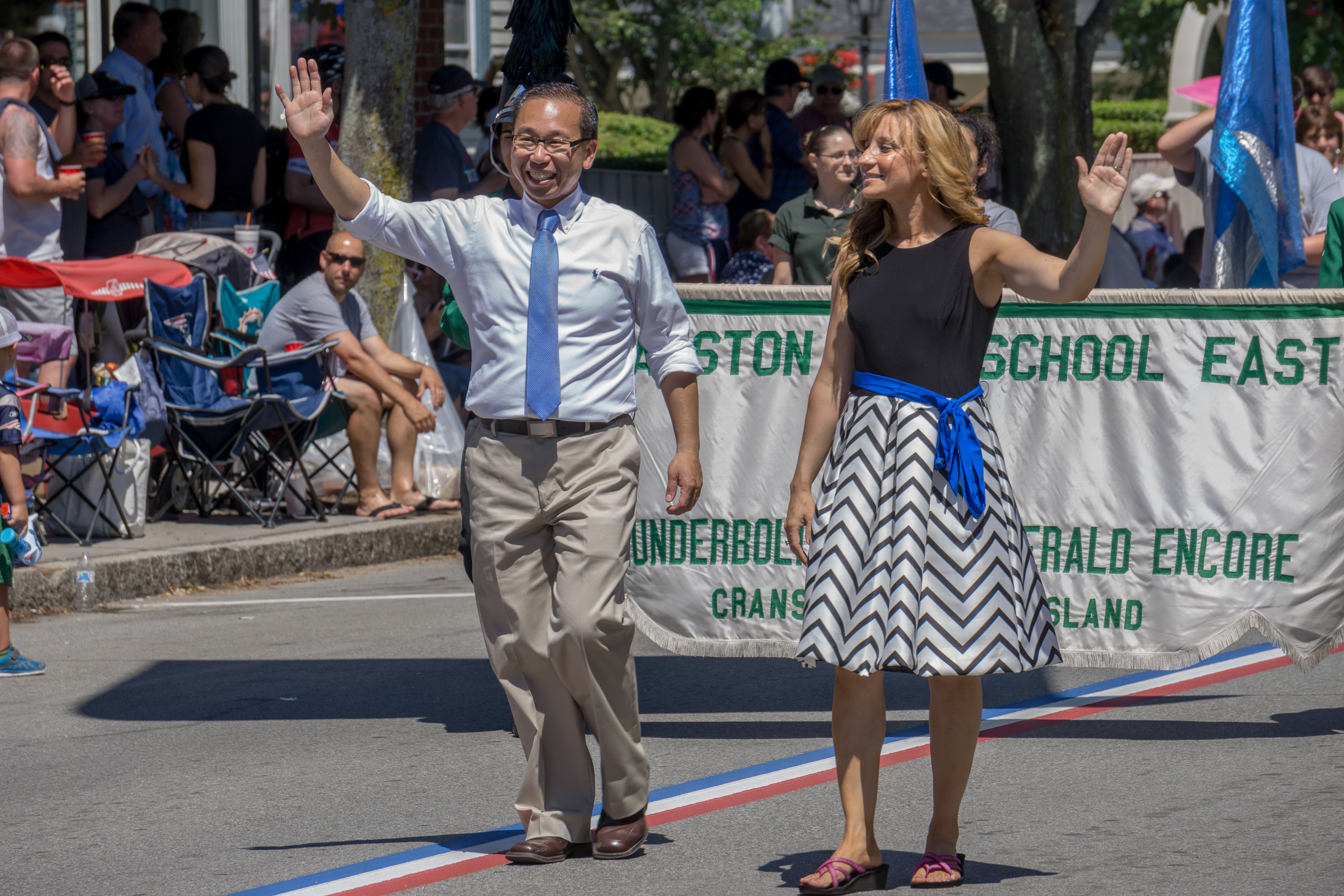 Cranston mayor Allan Fung marches with his wife Barbara Ann Fenton in the Bristol, Rhode Island, July 4 parade, 2016.